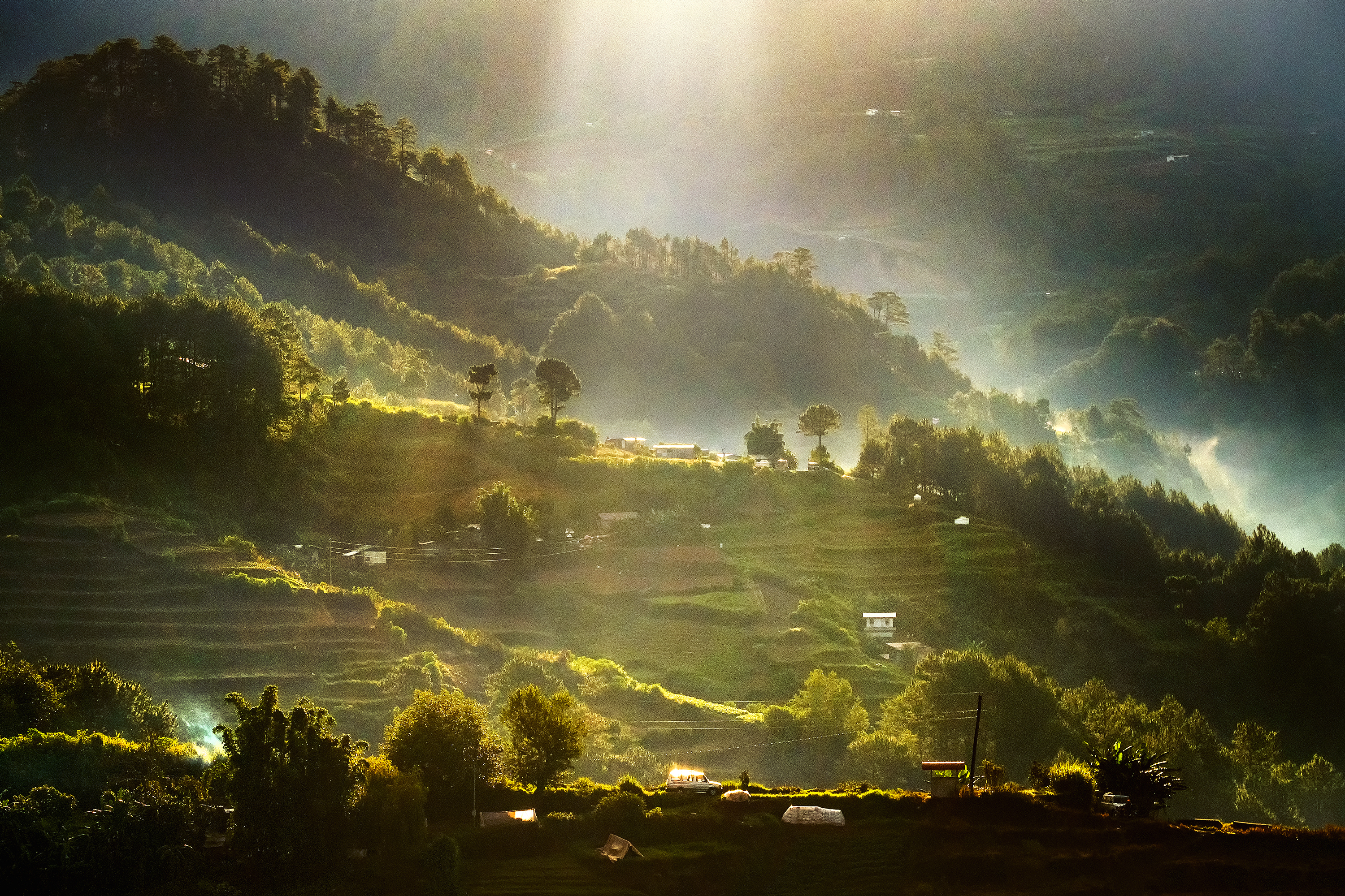 A beautiful scene of cordillera mountain ranges.